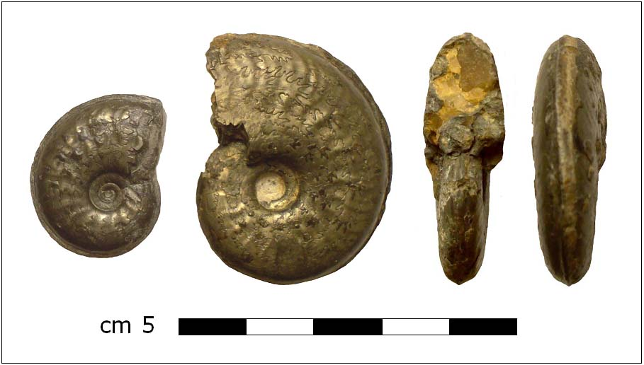 pyritized specimens of Harpoceras (Eleganticeras) elegans.